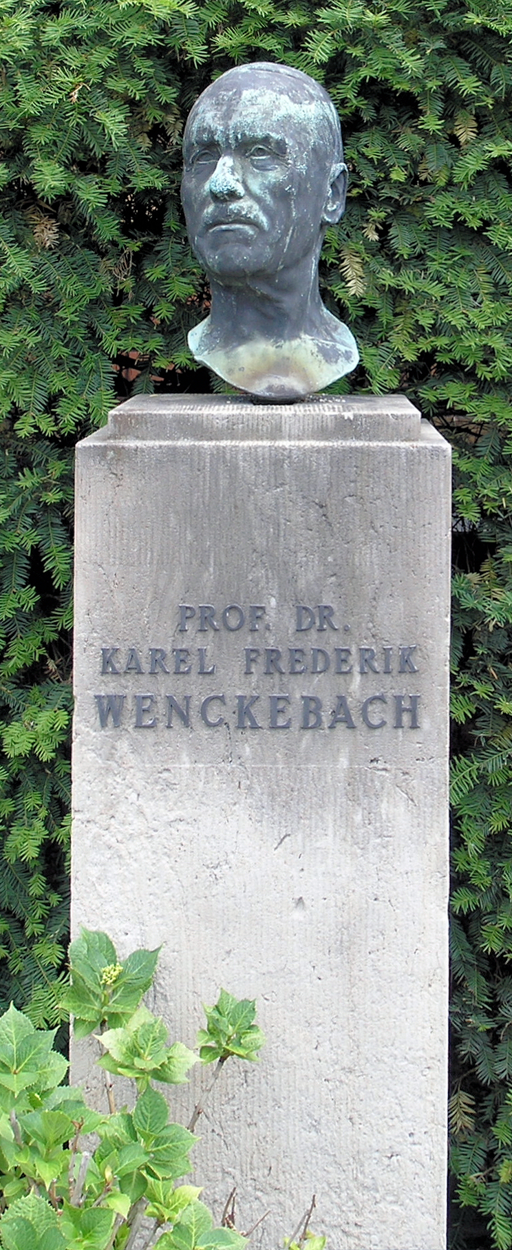 Memorial stone, Karel Frederik Wenckebach, Wenckebachstraße 23, Berlin-Tempelhof, Germany